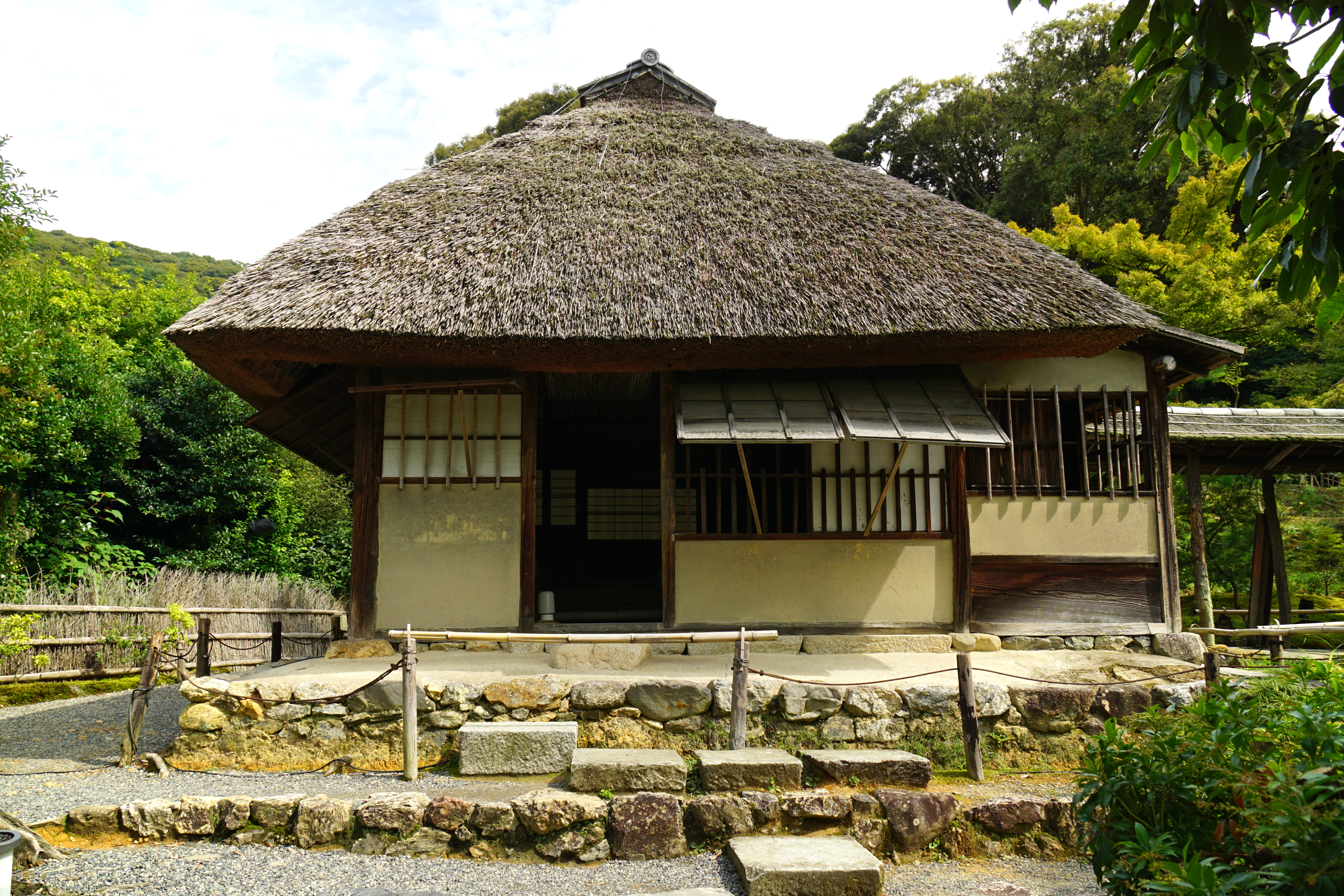 Kōdai-ji in Higashiyama-ku, Kyoto, Kyoto prefecture, Japan